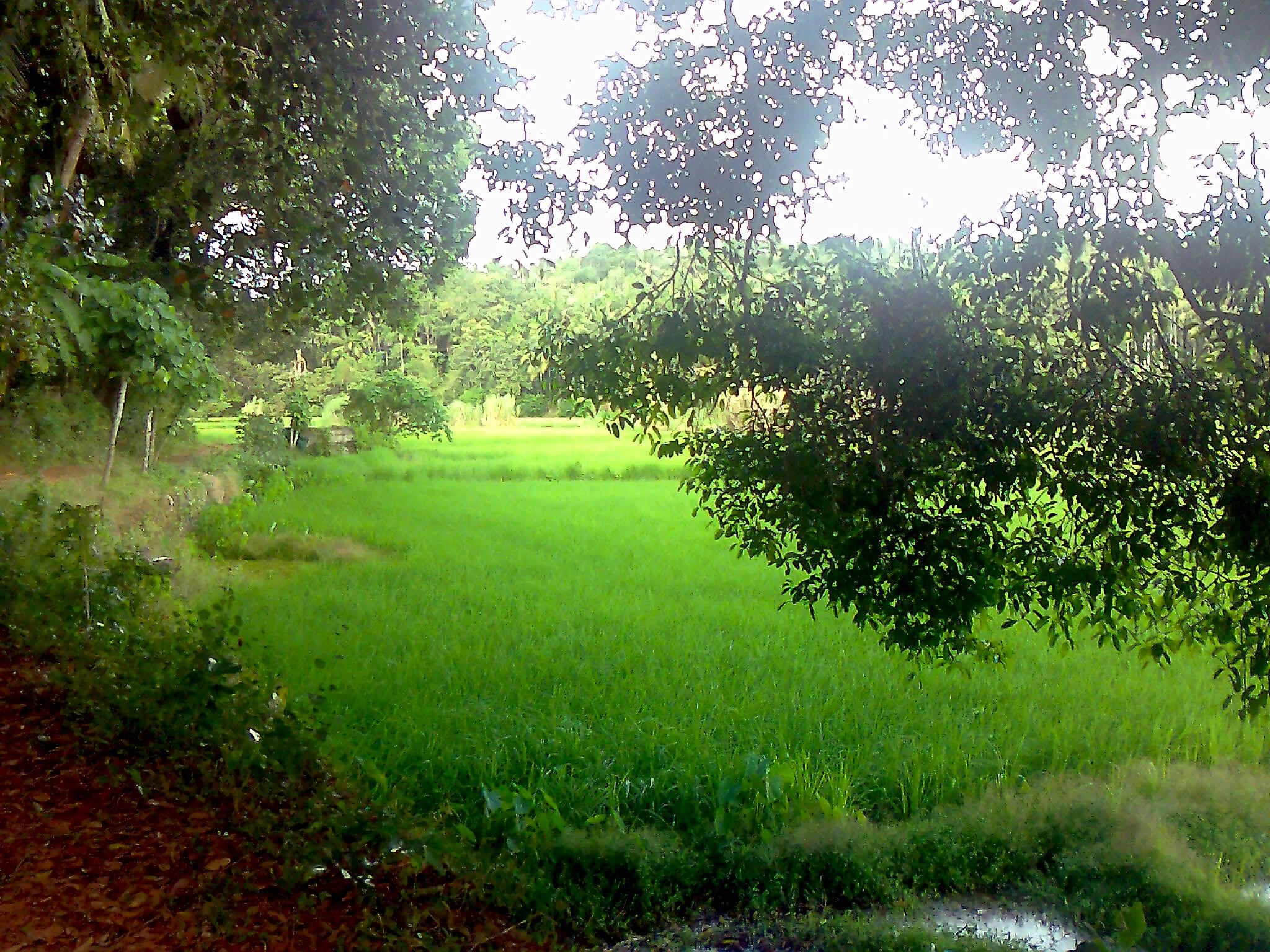 Parappur Paddy Fields